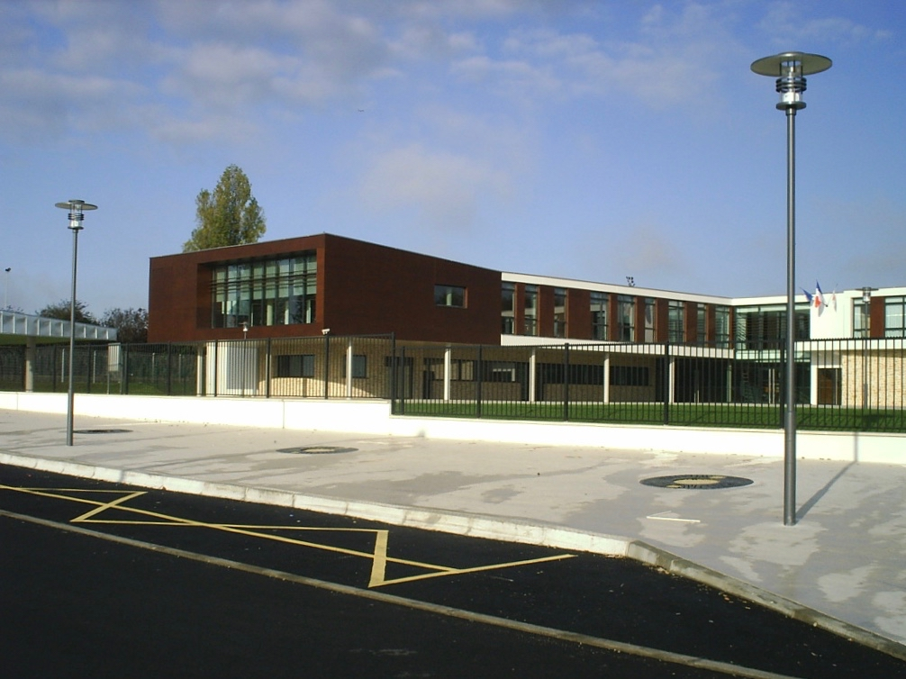 The new secondery school of Goussainville, opened on september 2008